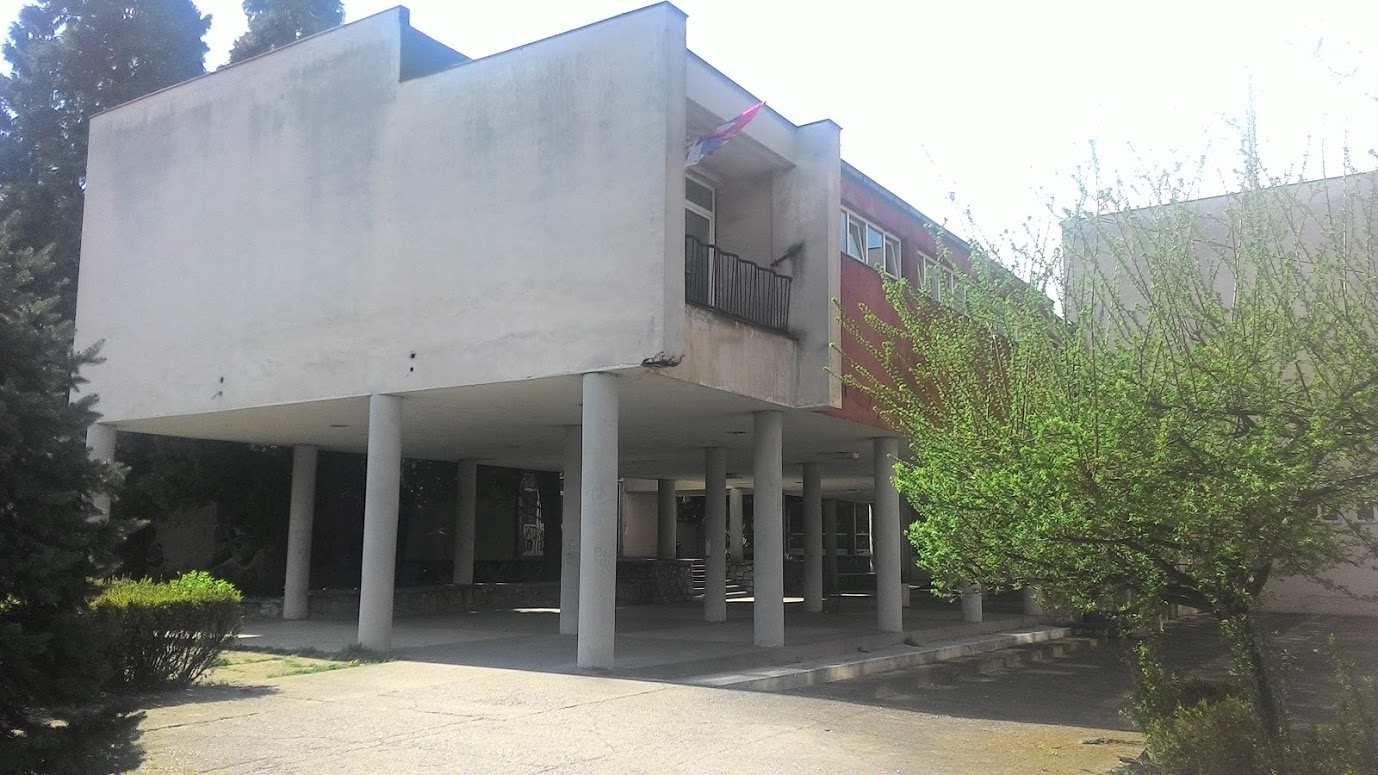 XII Belgrade Gymnasium (Grammar school)